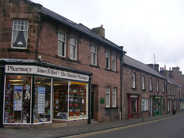 Wooler Town Centre. Time appears to have stood still in this Northumbrian town.